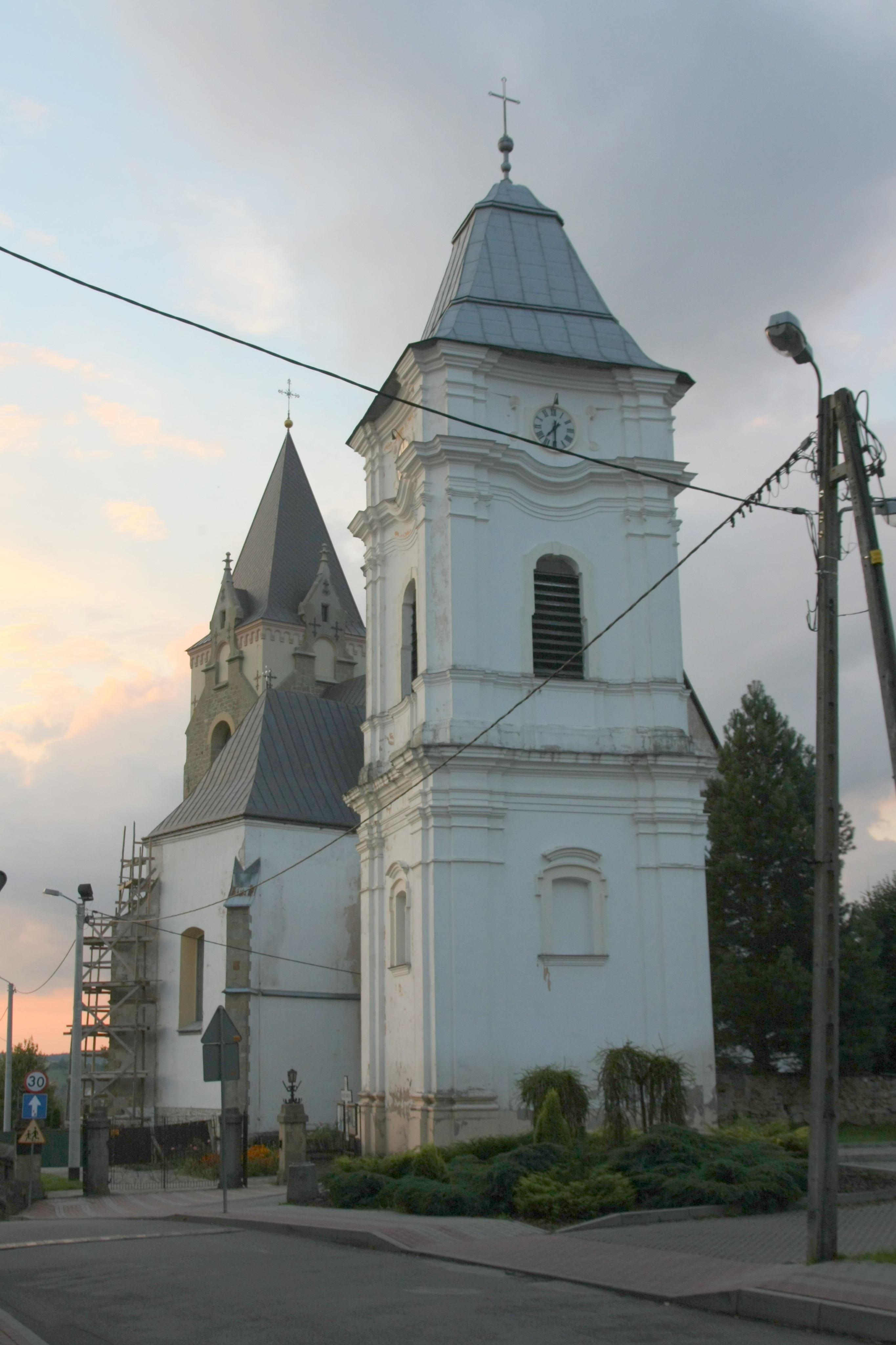 Bell tower in Lesko.